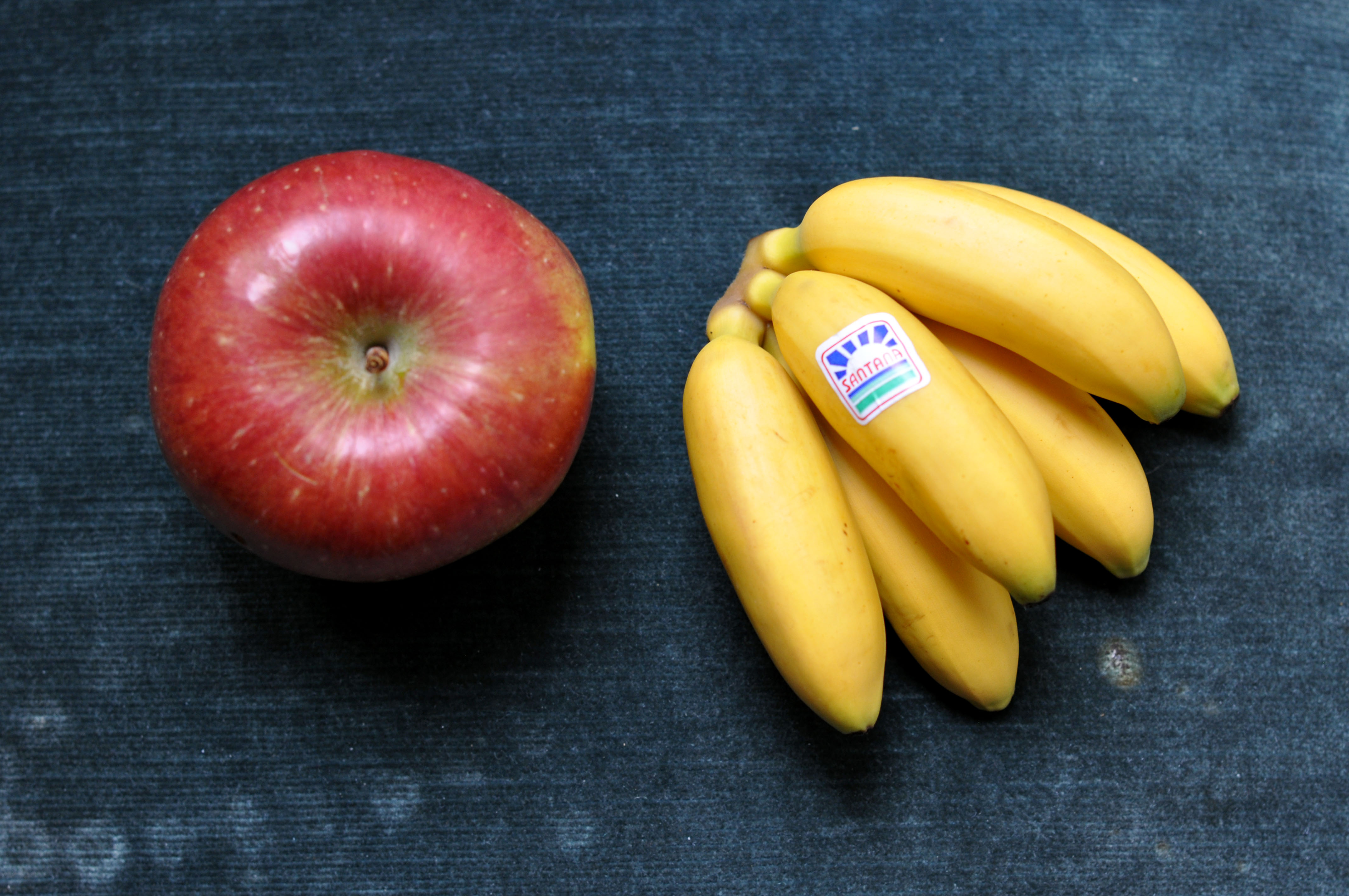 Apple with bananas